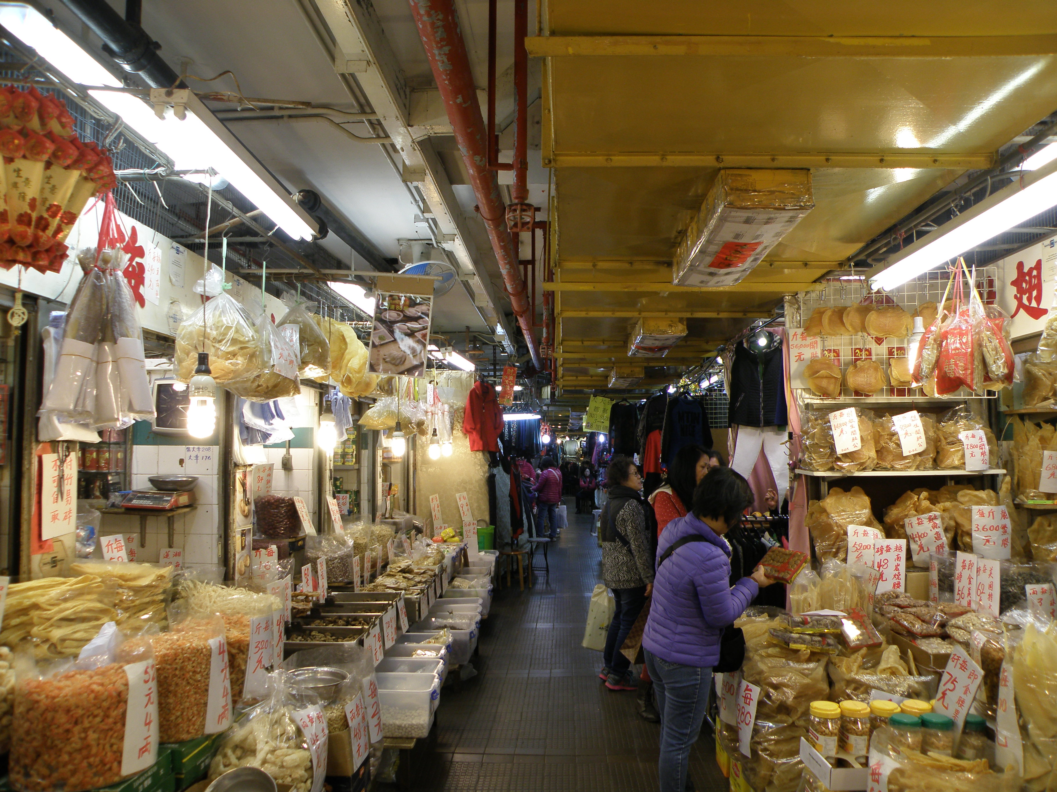 Sai Wan Ho Market in Sai Wan Ho, Hong Kong.